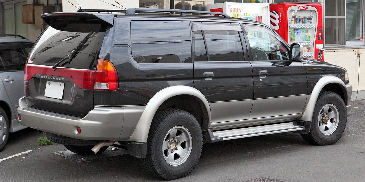 Mitsubishi Challenger 3.0